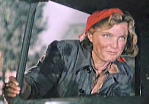 Olesia Ivanova as Katka in The Train Goes East (1947)